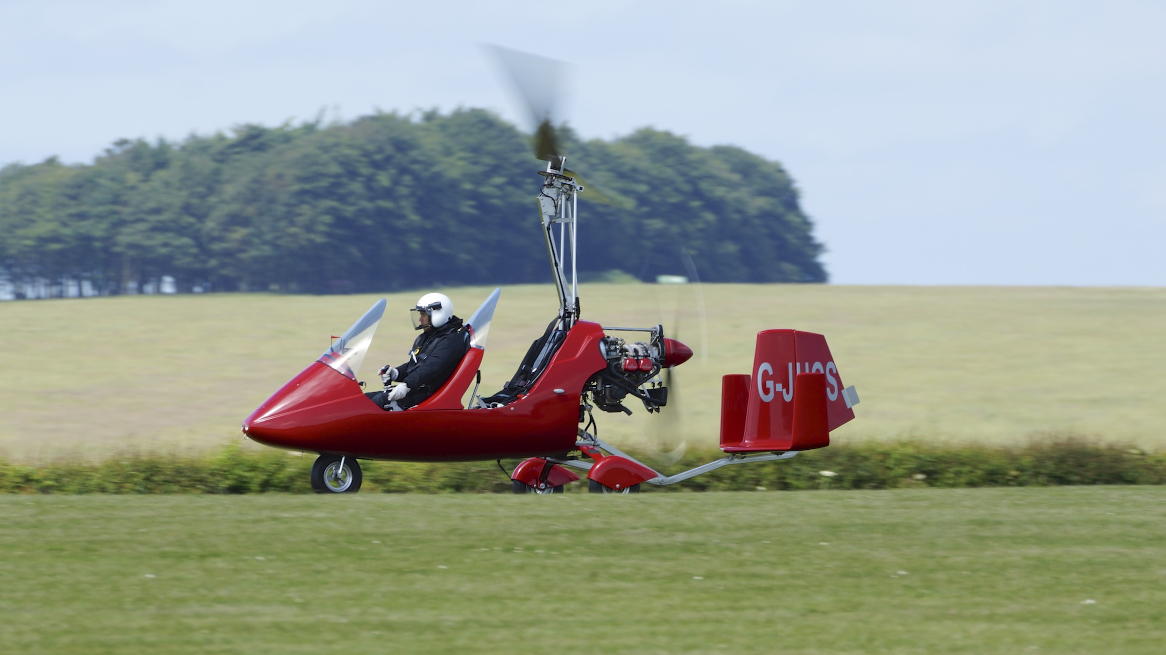 The busiest day ever in the history of this charming airfield. A hot sunny day was the icing on the cake!